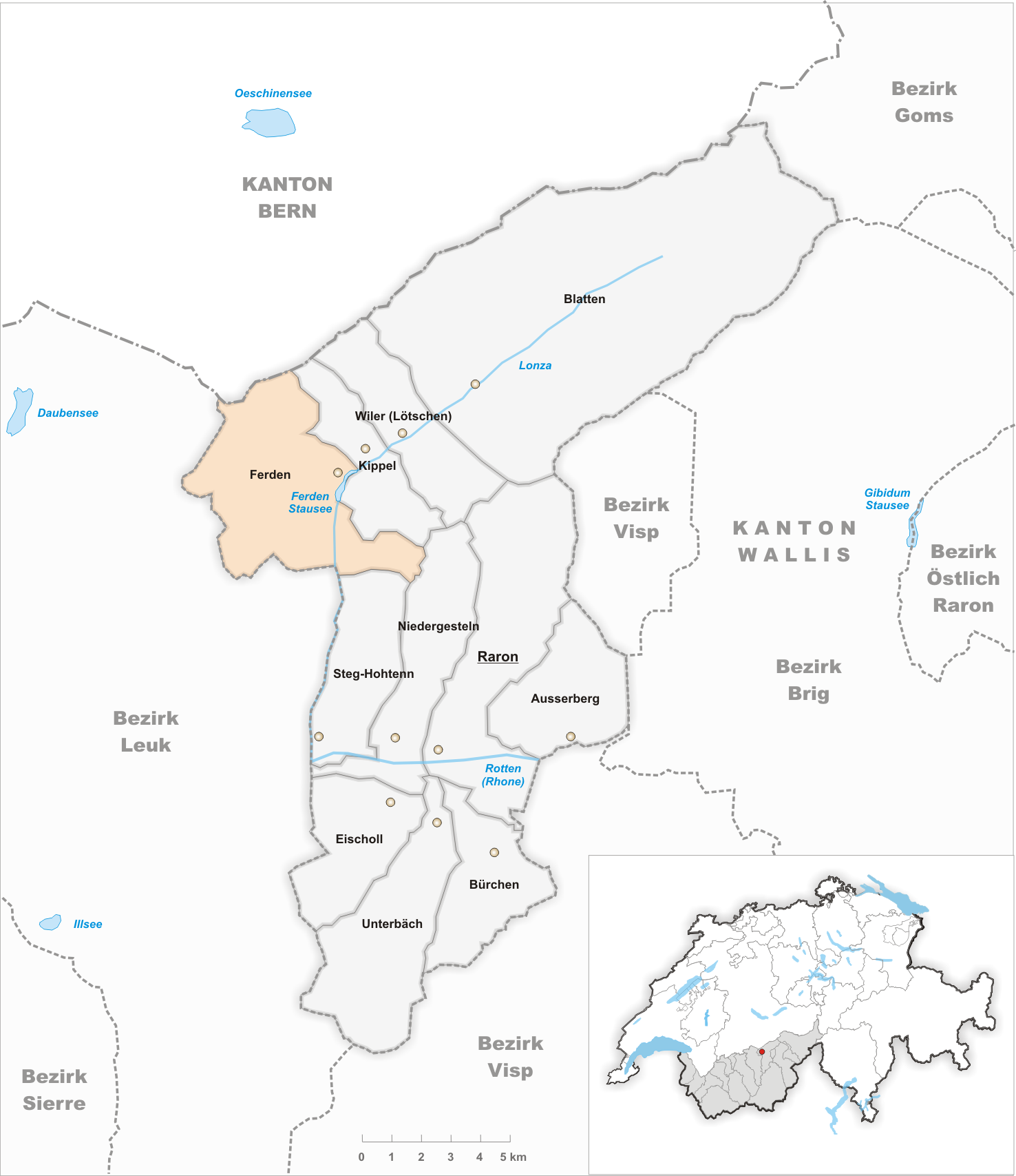 Municipality Ferden